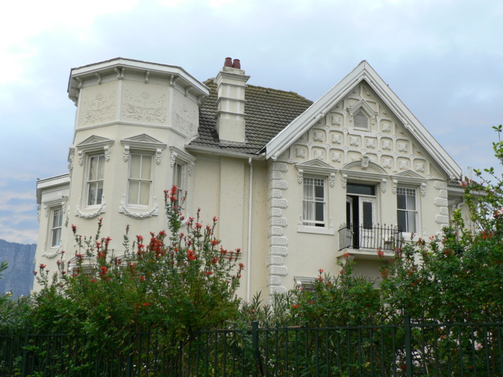 Wyndover Manor, Wyndover Road, Claremont, Cape Town, Western Cape, South Africa.